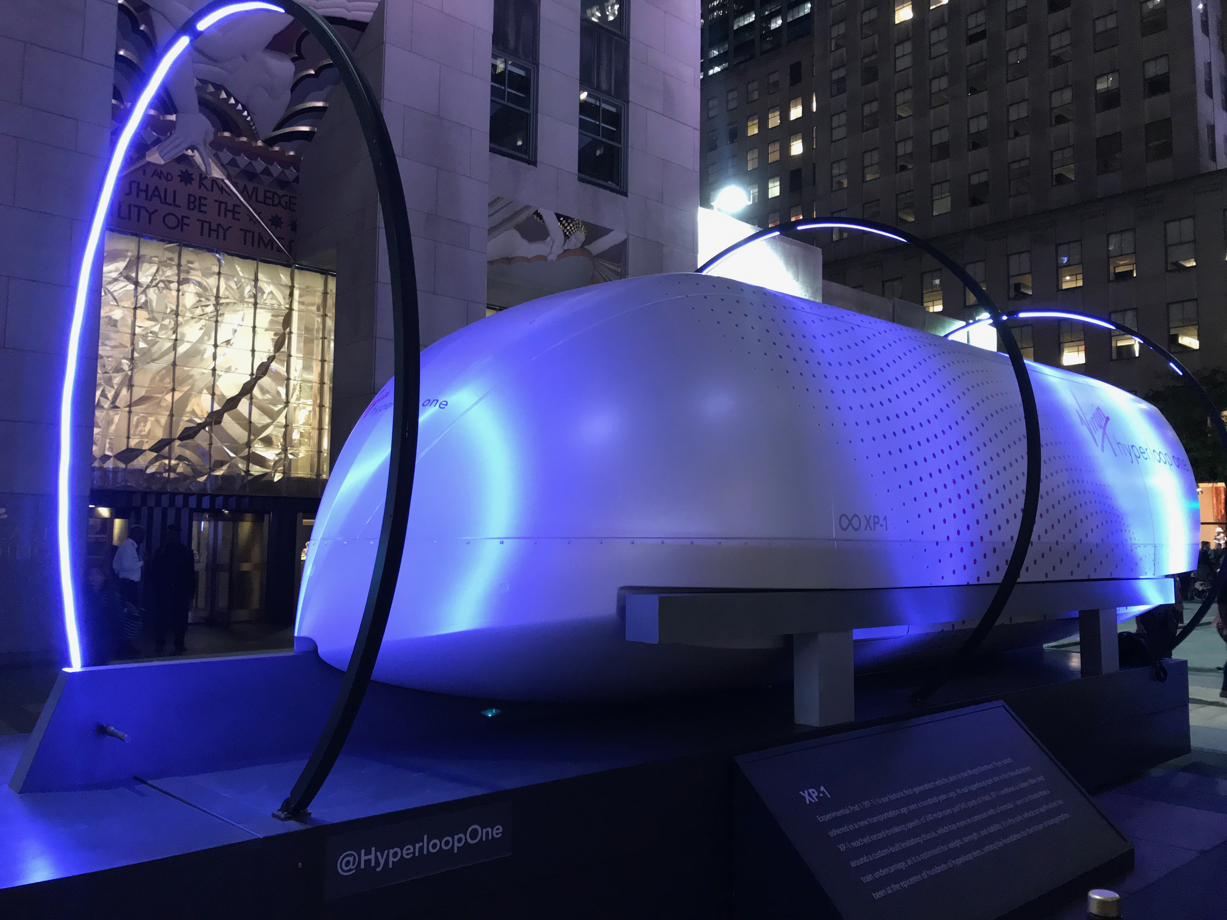 Virgin Hyperloop One XP-1 test pod on display at Rockefeller Center on September 27, 2019